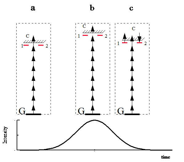 For the ionization article